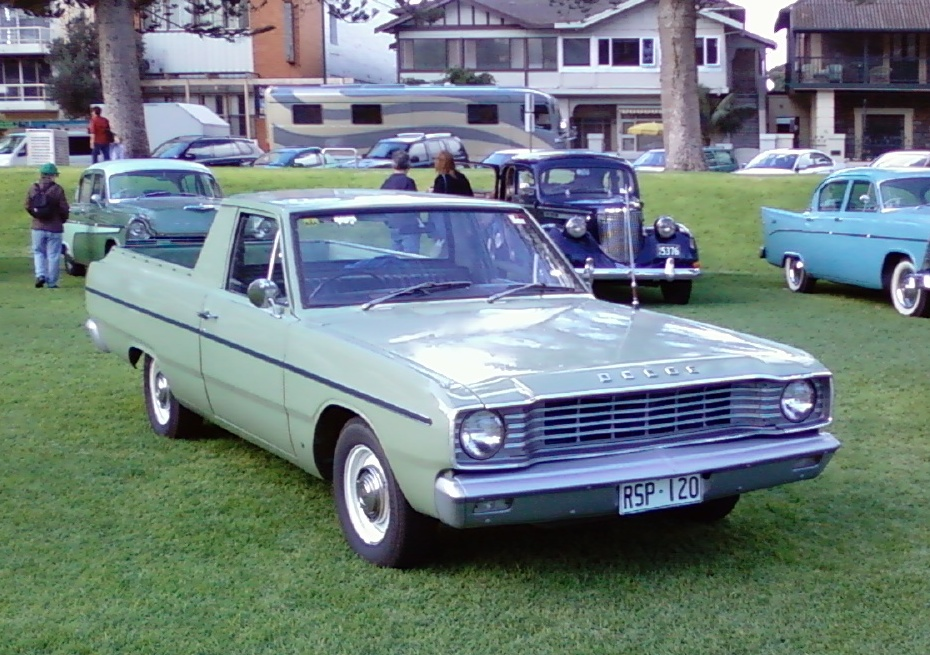 The Dodge VE utility was produced by Chrysler Australia in 1968-69 as a lower-priced version of the Chrysler VE Valiant utility